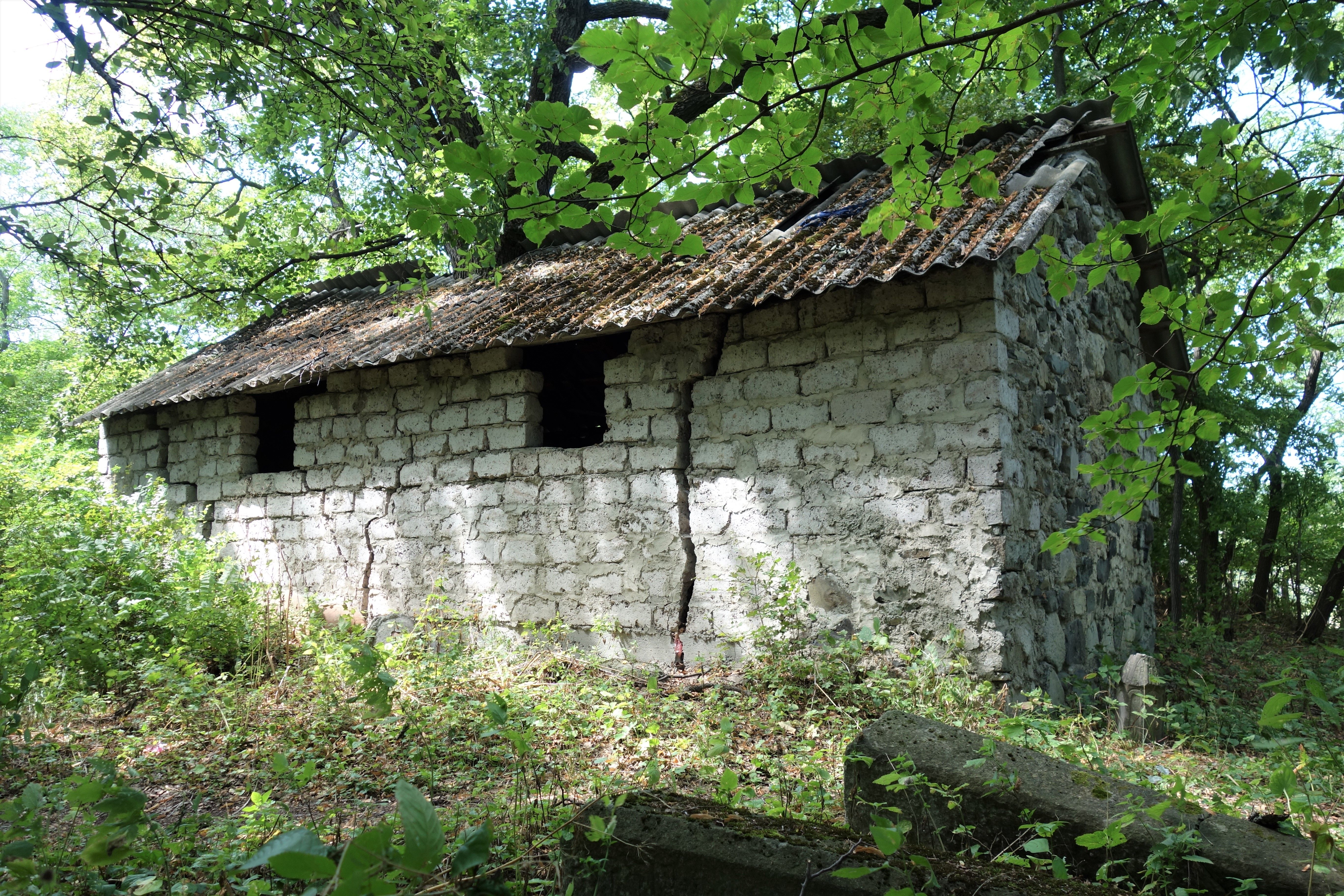 Mother of God Church of Chandrebi, Kareli Municipality, Georgia